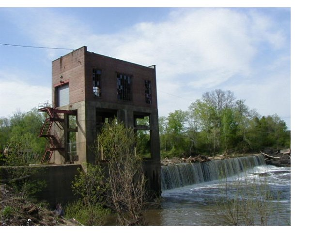 Carbonton Dam